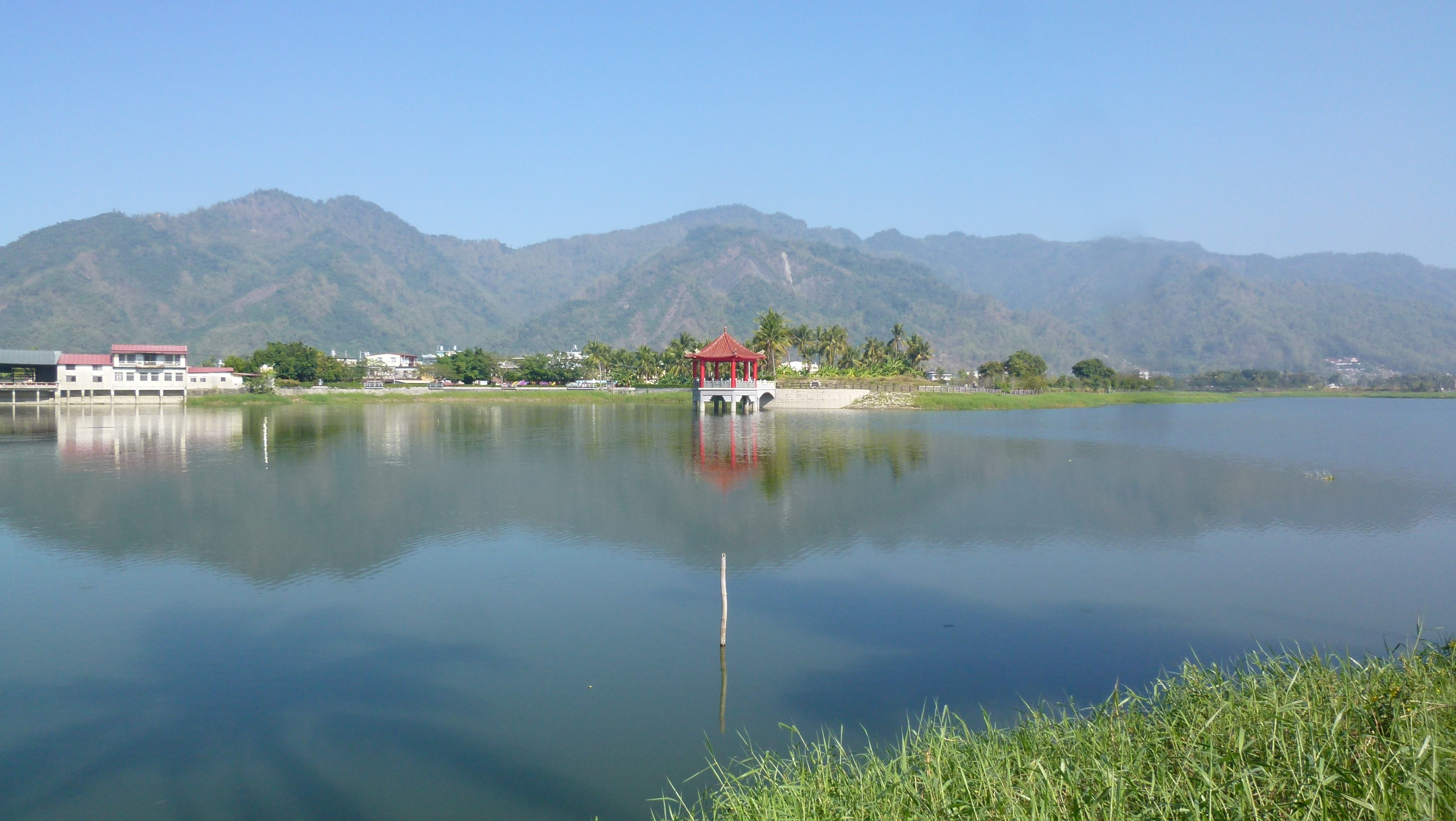 2012 R.O.C Taiwain Kaohsiung City Meinong Zhongzheng Lake